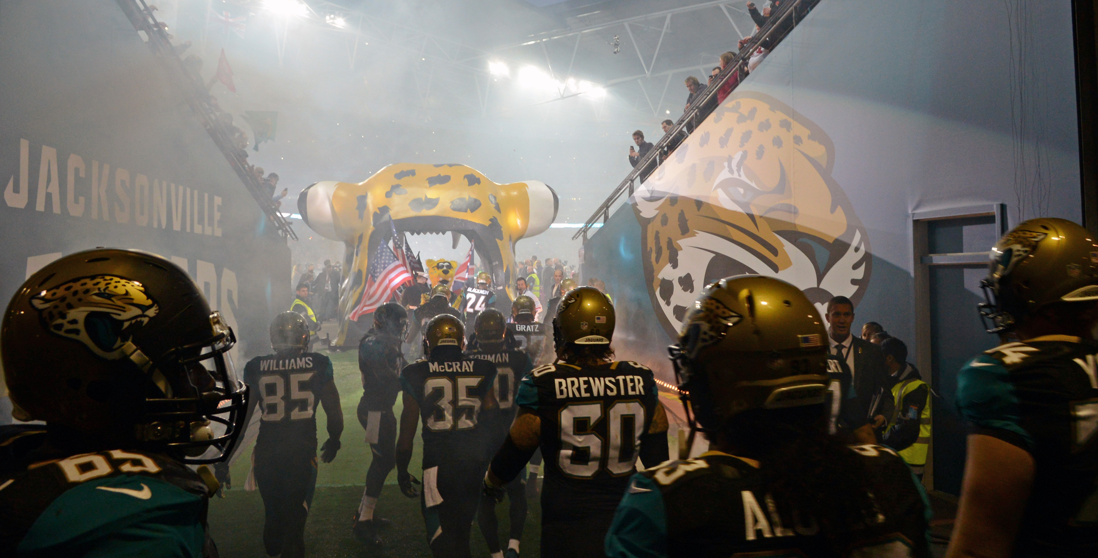 The National Football League’s Jacksonville Jaguars prepare to take the field, Oct. 27, 2013, during the internationally-televised game against the San Francisco 49ers at Wembley Stadium in London, England. At the front of the formation, U.S. Air Force Airman 1st Class James Taylor, 100th Security Forces Squadron patrolman, held the American flag and lead the charge onto the field. The NFL continues its Salute to Service campaign by giving Taylor and U.S. Air Force Airman Sara V. Summers, 48th Security Forces Squadron patrolman from RAF Lakenheath, the opportunity to lead rival football teams onto the field. (U.S. Air Force photo by Senior Airman Christine Griffiths/Released)